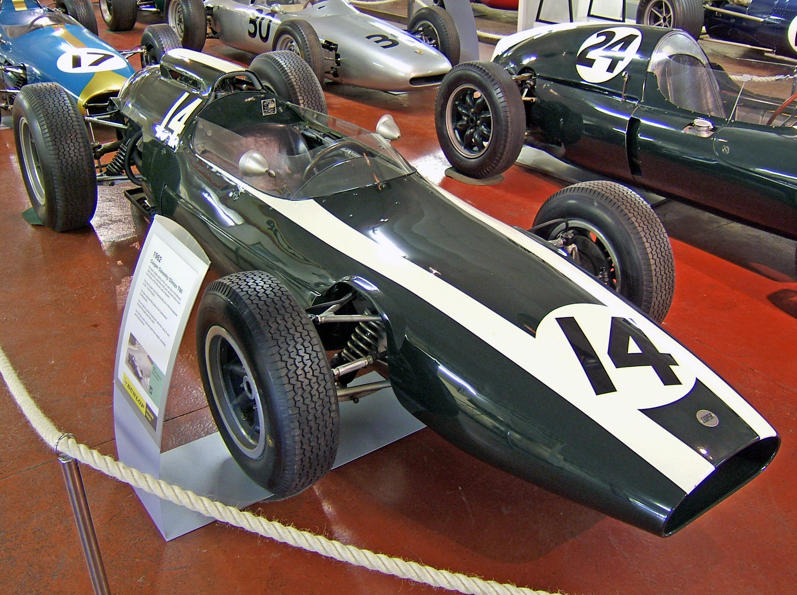 A Cooper T60 Formula One car of 1962. In the Donington Grand Prix Collection museum, Leics., UK.